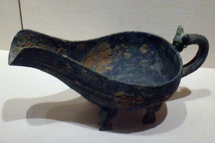 A bronze Yi-pourer of Piaget Anfu of Ji, unearthed with four bronze Xu-basin at Huangxian (now Longkou), Yantai, Shangdong, China in 1951.